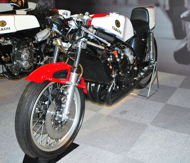 Yamaha TZ750 (1974, stripped)